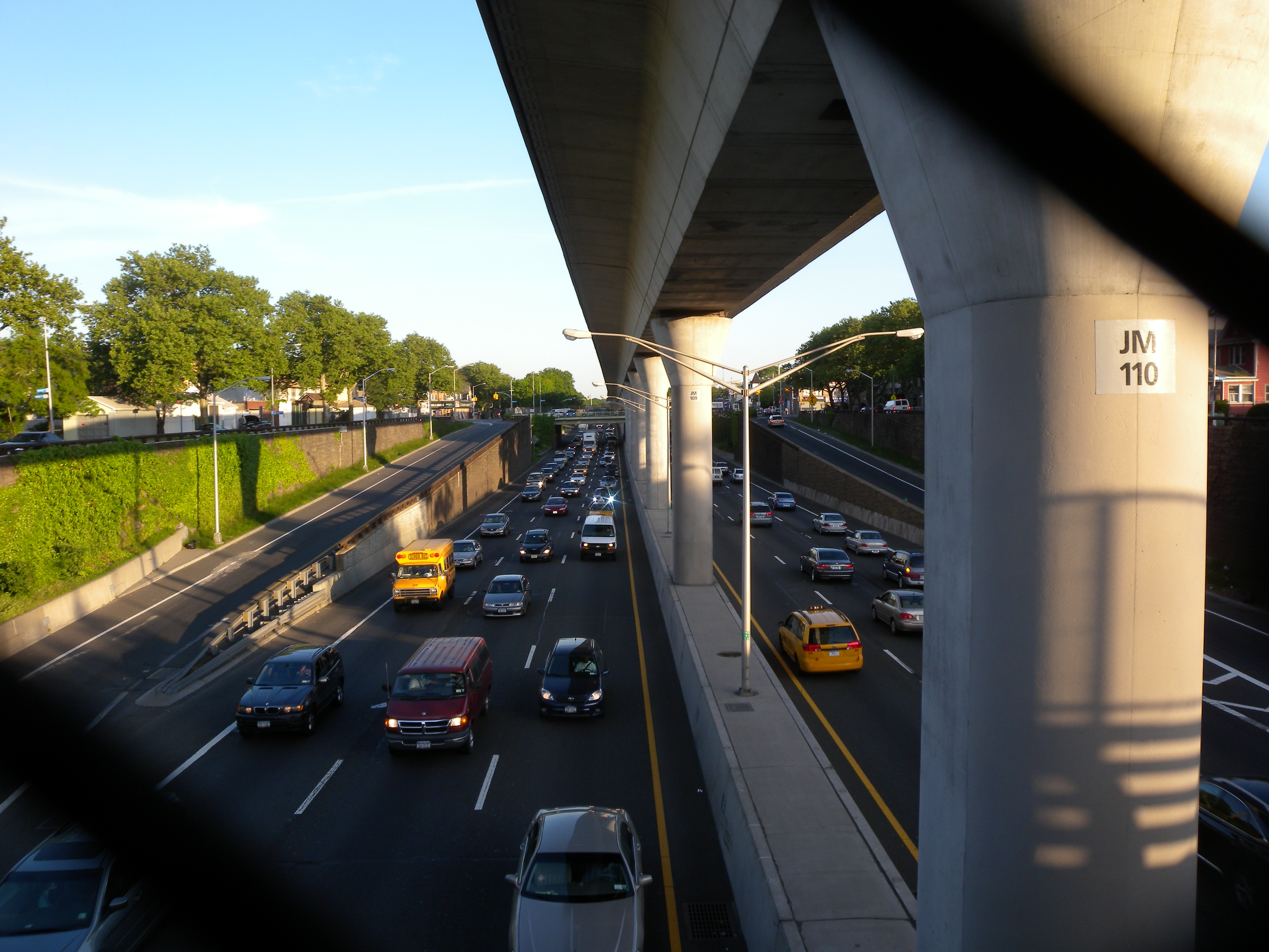 Looking south through chain link fence from 101st Avenue overpass at Van Wyck Expressway and pylons holding AirTrain JFK on a sunny late afternoon.